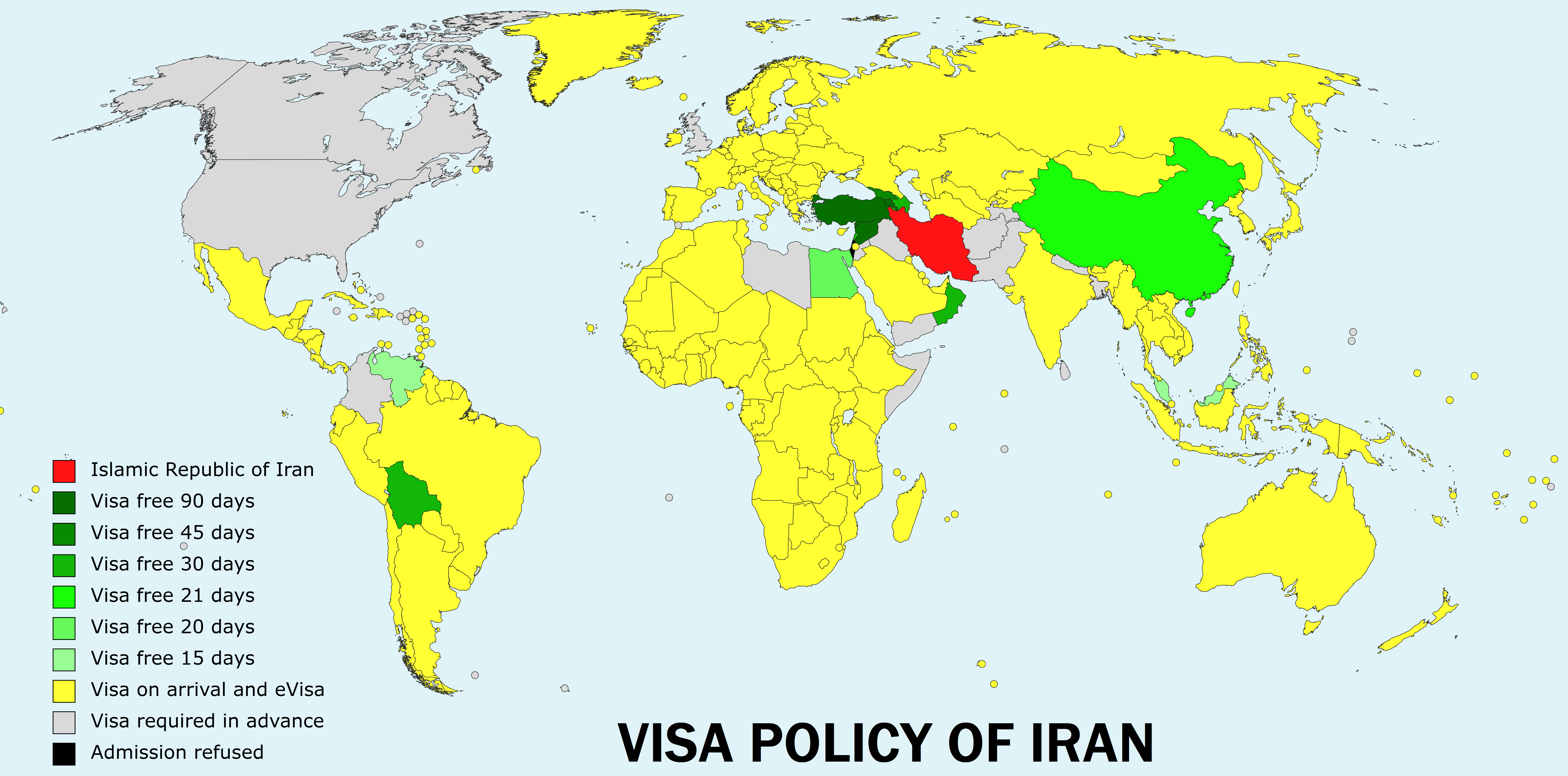 Visa policy of Iran Iran Visa-free Visa on arrival Visa required